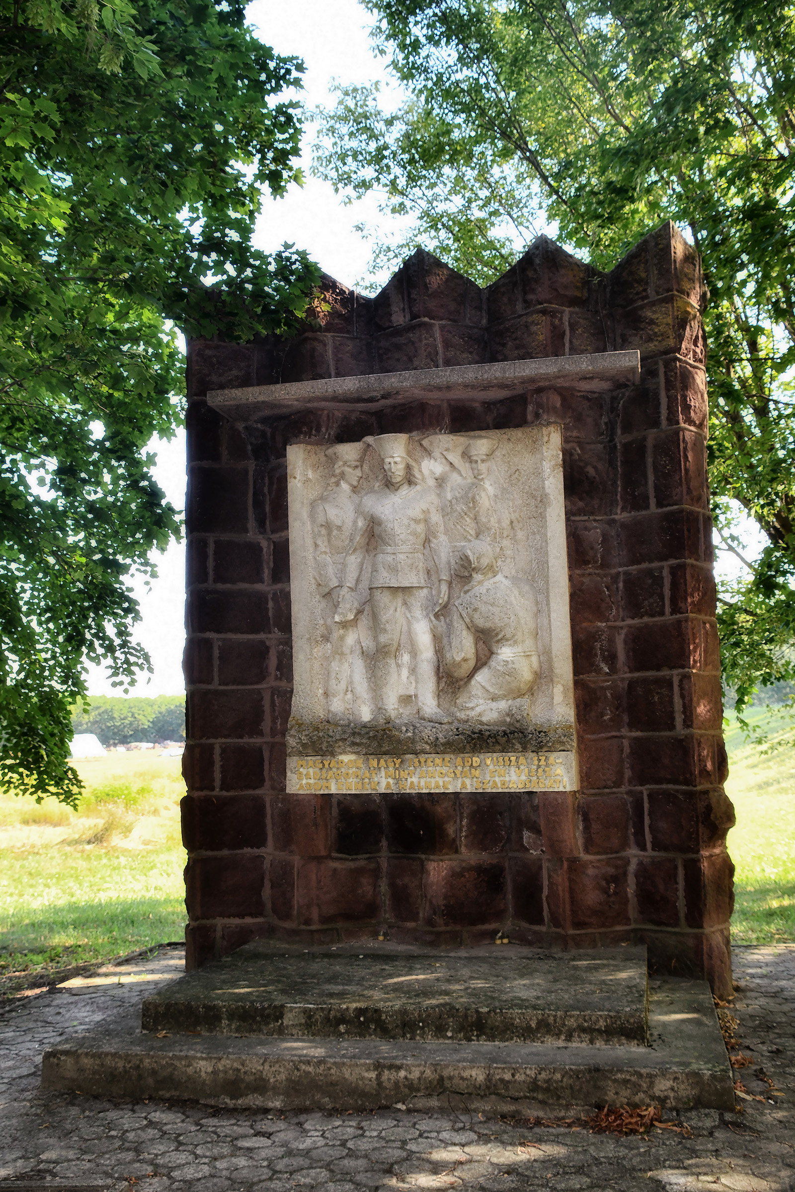 The Rákóczi Memorial in Abda, Hungary